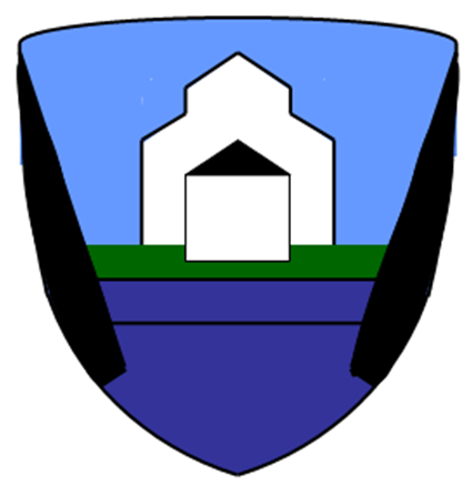 Coat of arms of Plužine municipality, Montenegro